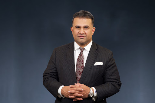 A professionally take picture of Vinoo Varghese